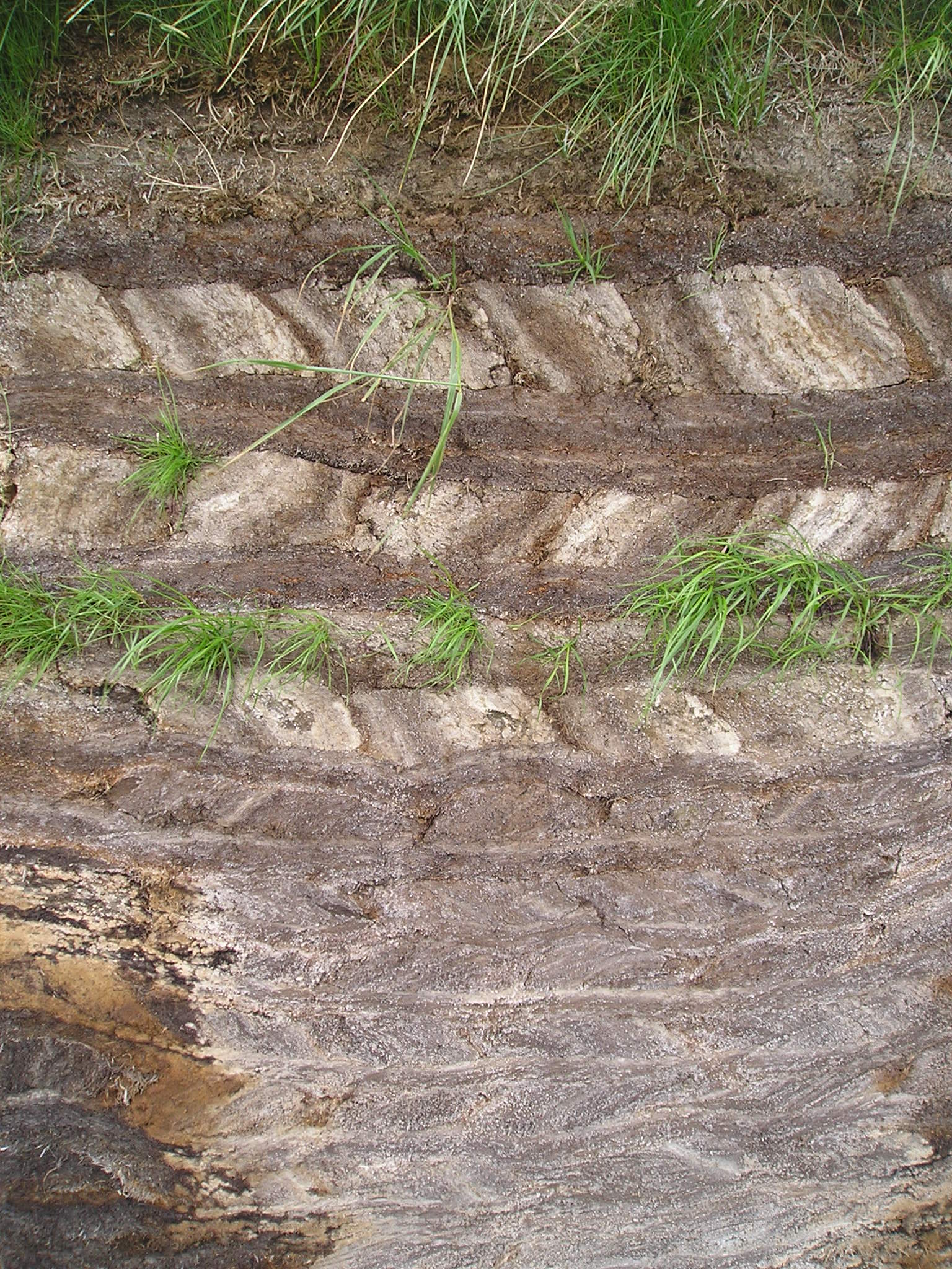 Peat wall details at Glaumbær Farm in Iceland.